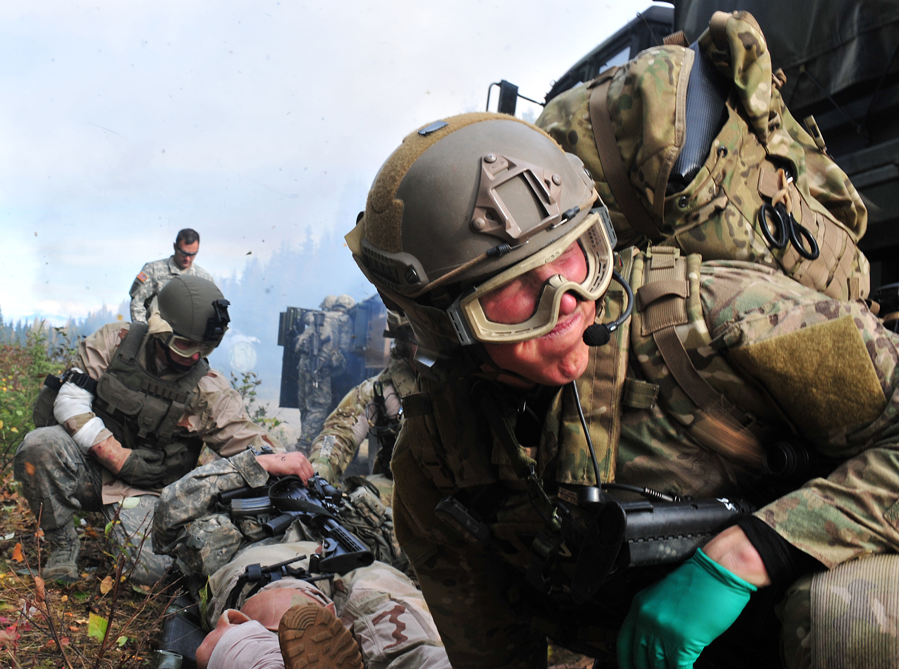 Staff Sgt. BIll Cenna, 212th Rescue Squadron pararescueman, prepares to move a patient on a litter while the HH-60G Pavehawk helicopter lands during training at Joint Base Elmendorf-Richardson, Sept. 21. The training focused on quick-care-under-fire and also gave training to Baker Company, 3rd Platoon, 509th Infantry Regiment (Airborne), on how to react when pararescuemen arrive. (U.S. Air Force photo by Staff Sgt. Zachary Wolf)